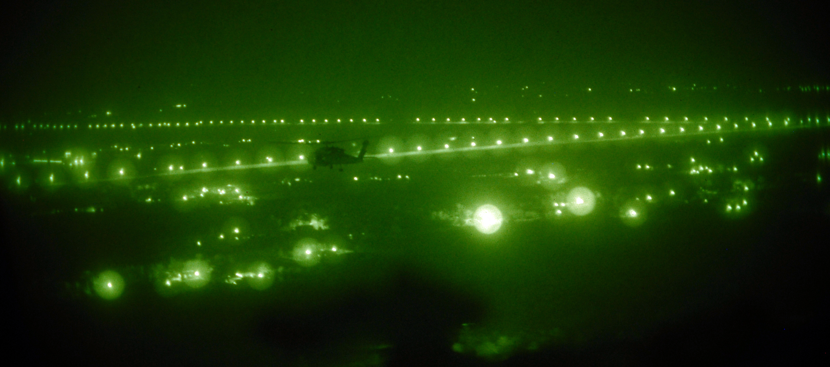 Members of Combined Joint Special Operations Air Component conduct night operations. 080825-N-5710P-089 BALAD, Iraq (Aug. 25, 2008) Members of Combined Joint Special Operations Air Component (CJSOAC), from Helicopter Sea Combat Squadron (HSC) 84 conduct night operations. HSC-84 is the only Navy component of the CJSOAC and has been supporting vital special operations missions in the Iraqi theatre. — Released (Text by U.S. Navy)